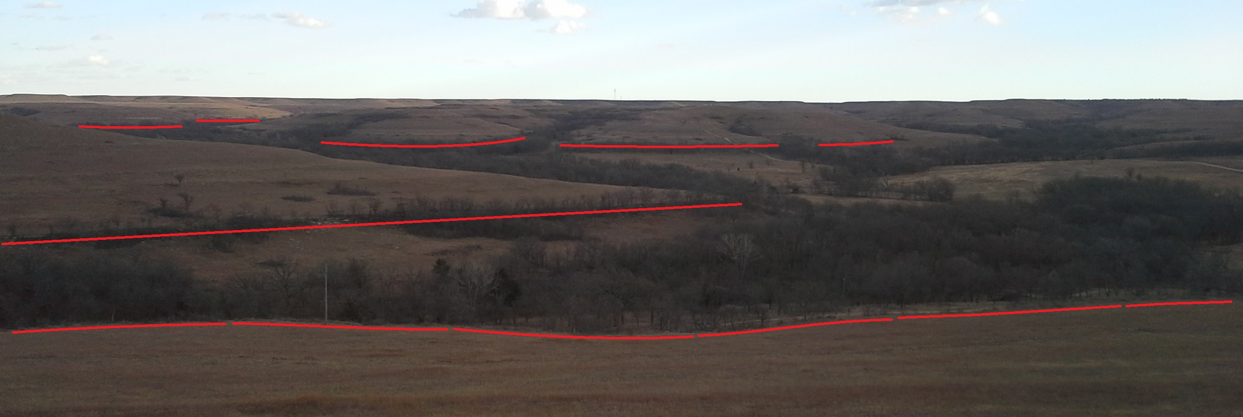 A midwinter view of the Konza Prairie from the overlook point on the Nature Trail. Featured here are the characteristic lines of shrubbery (highlighted by red lines) that commonly trace the outcrop of the Cottonwood Limestone in the Flint Hills in Kansas, USA, which is the source of water in streams below. The easiest identified outcrop lines in the photograph are the line across the left center where boulders of the limestone can be seen and the closest line below left to right across the picture. Trees and scrubs fill the streams and ravines, and lesser amounts of shrubs are seen marking other limestone aquifers higher on the slopes; but thick Cottonwood Limestone shrubs lines are seen lower on the slopes on the other side of the valley.